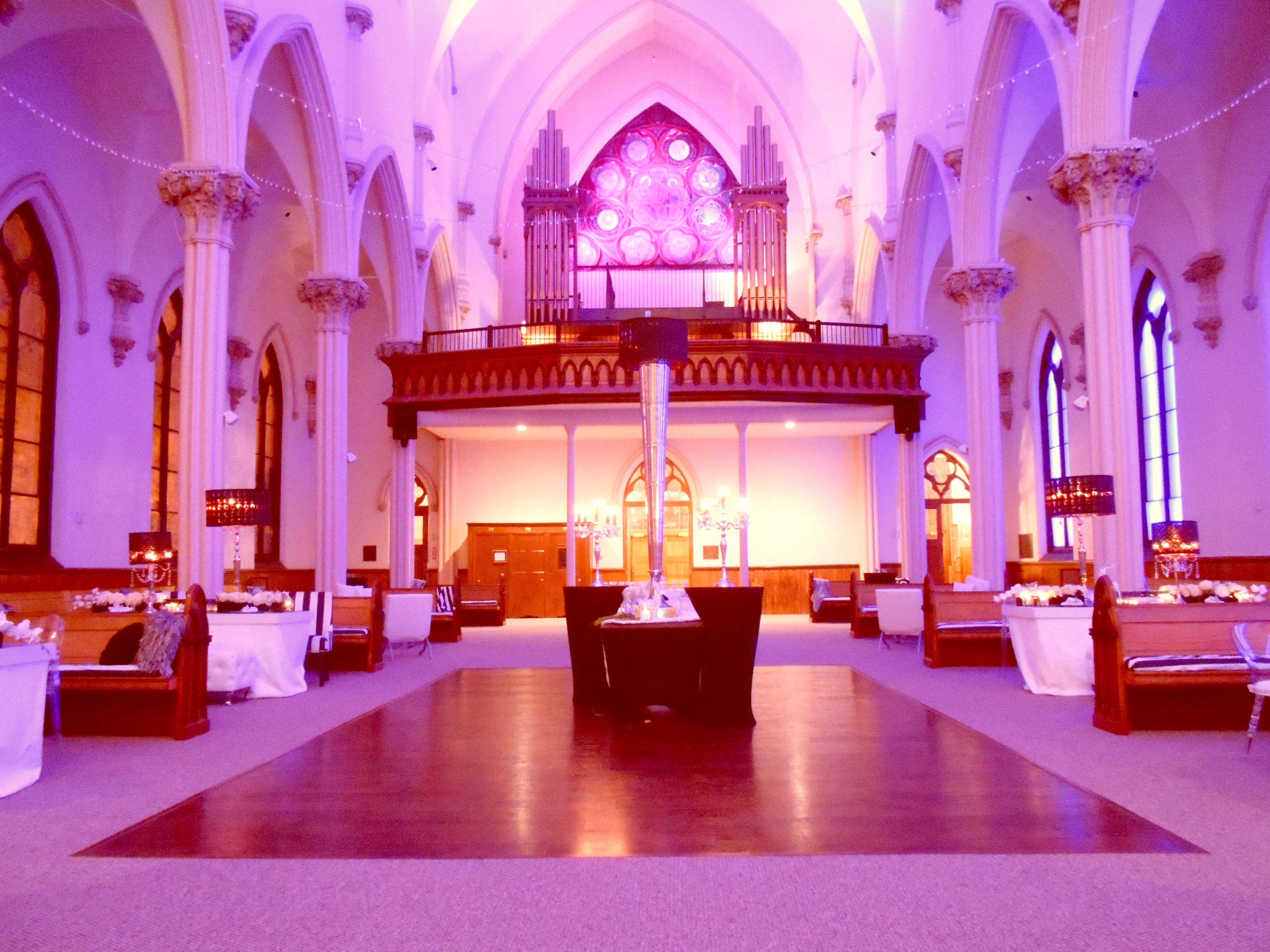 Interior of the Agora Grand Event Center